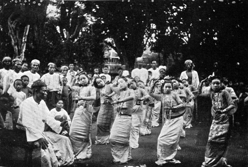 Village maiden dance performance